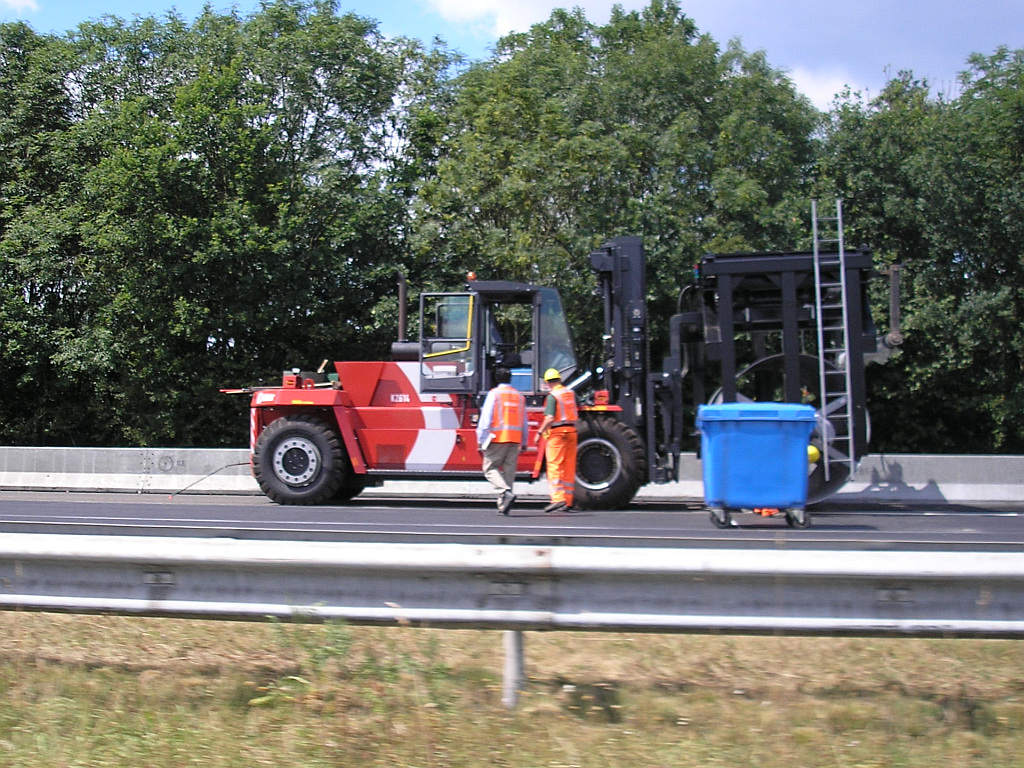 "Rollpave" - tarmac on a roll. Special vehicle for rolling out the tarmac. – Location: Hengelo, Overijssel, Netherlands. Keywords: Rollpave, tarmac, rollable